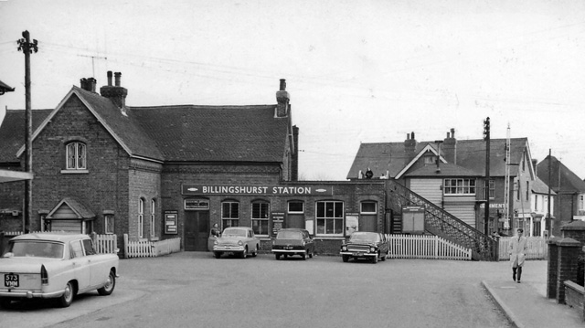 Billingshurst Station entrance. View SE, exterior of station (Up side); London - Horsham - Arundel - Littlehampton/Bognor/Chichester secondary main line.